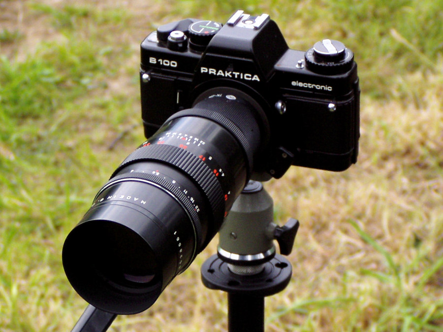 Praktica B100 electronic camera with Pentacon 200mm/4 lens